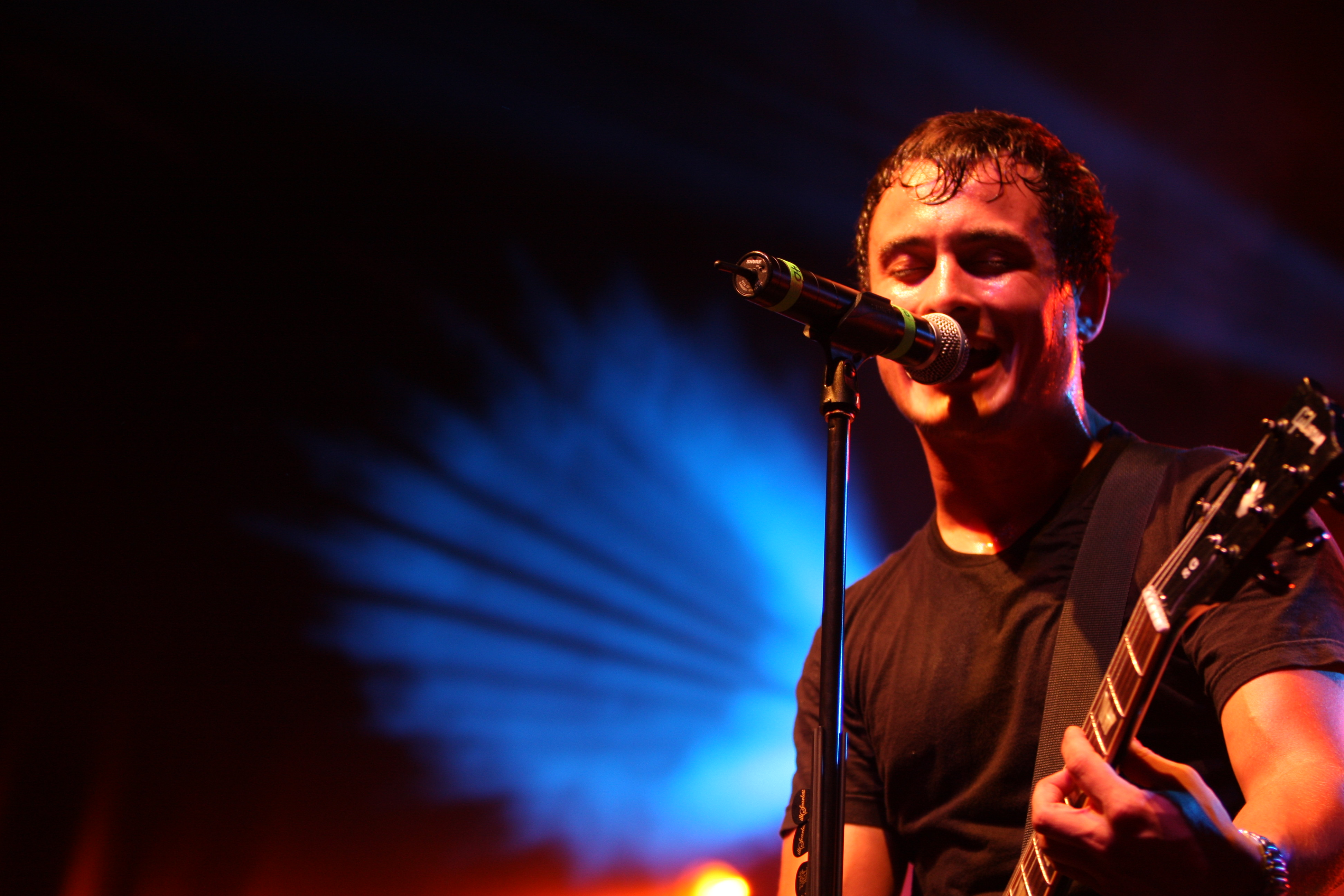 Carleton University Students Assoication Orientation / Frosh Week Day 4 Tuesday September 2'nd 2008 Concert Alumni Field illScarlett The Trews